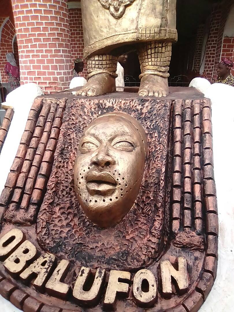 Entrance to the ancient palace of Obalufon in Ife, Osun State